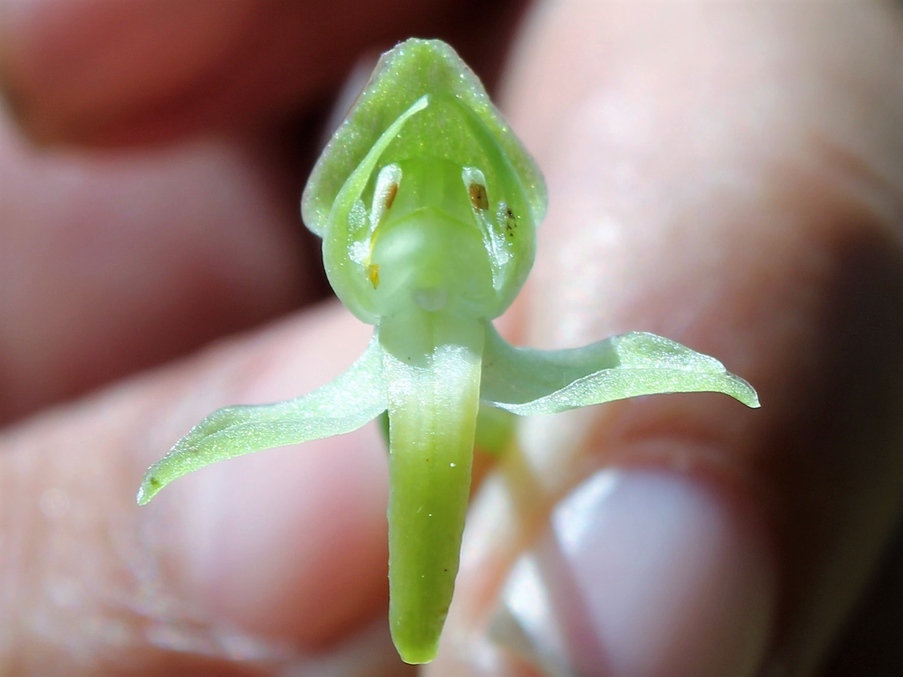 Platanthera chlorantha flower